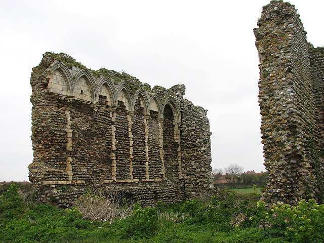 Broomholm Priory